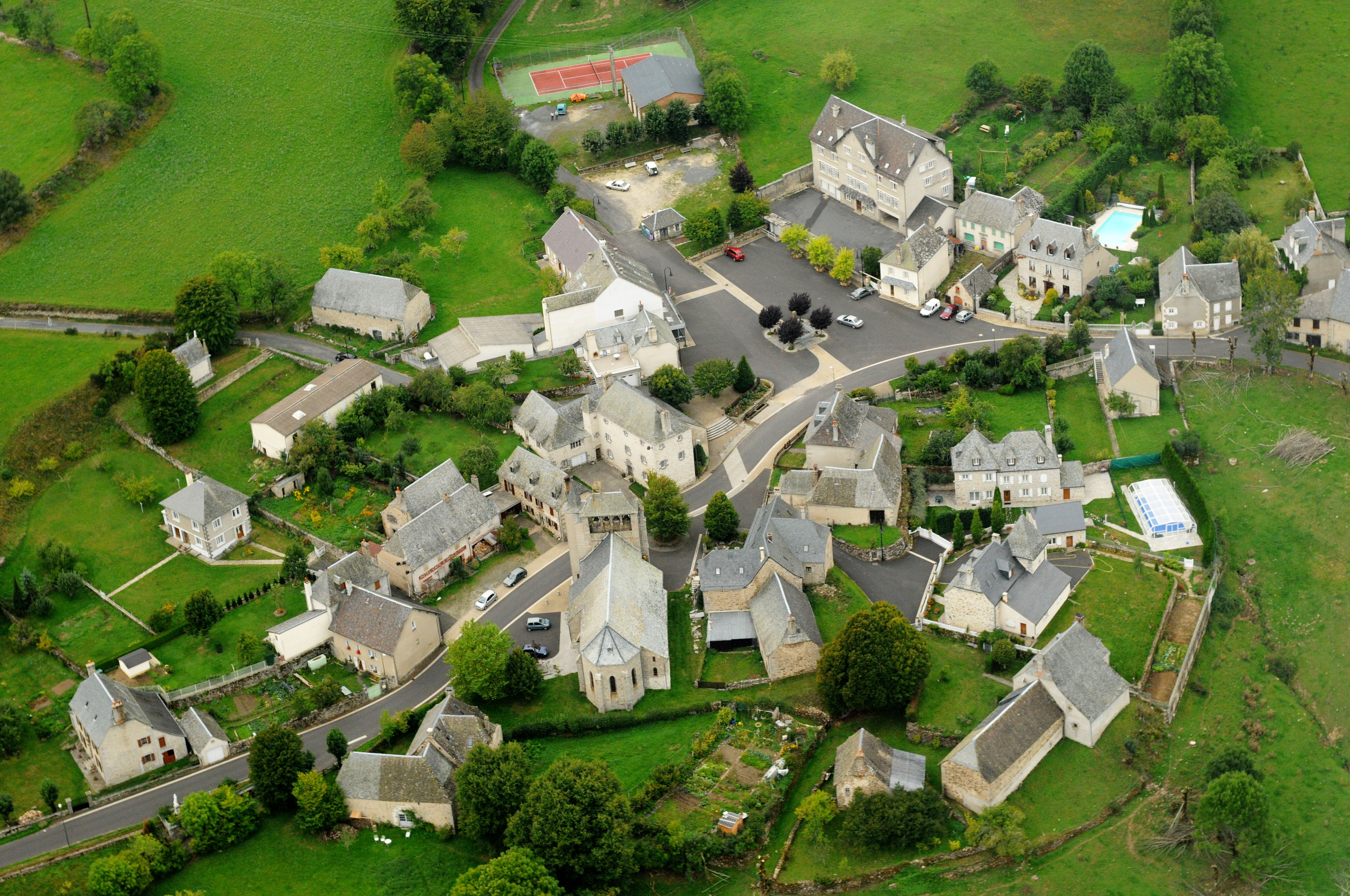 Vue aérienne du bourg de Lieutadès